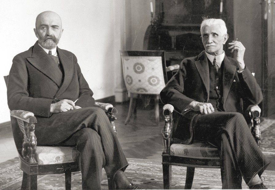 Walery Sławek and Ignacy Daszyński